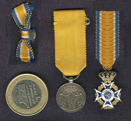 Two dutch miniatures